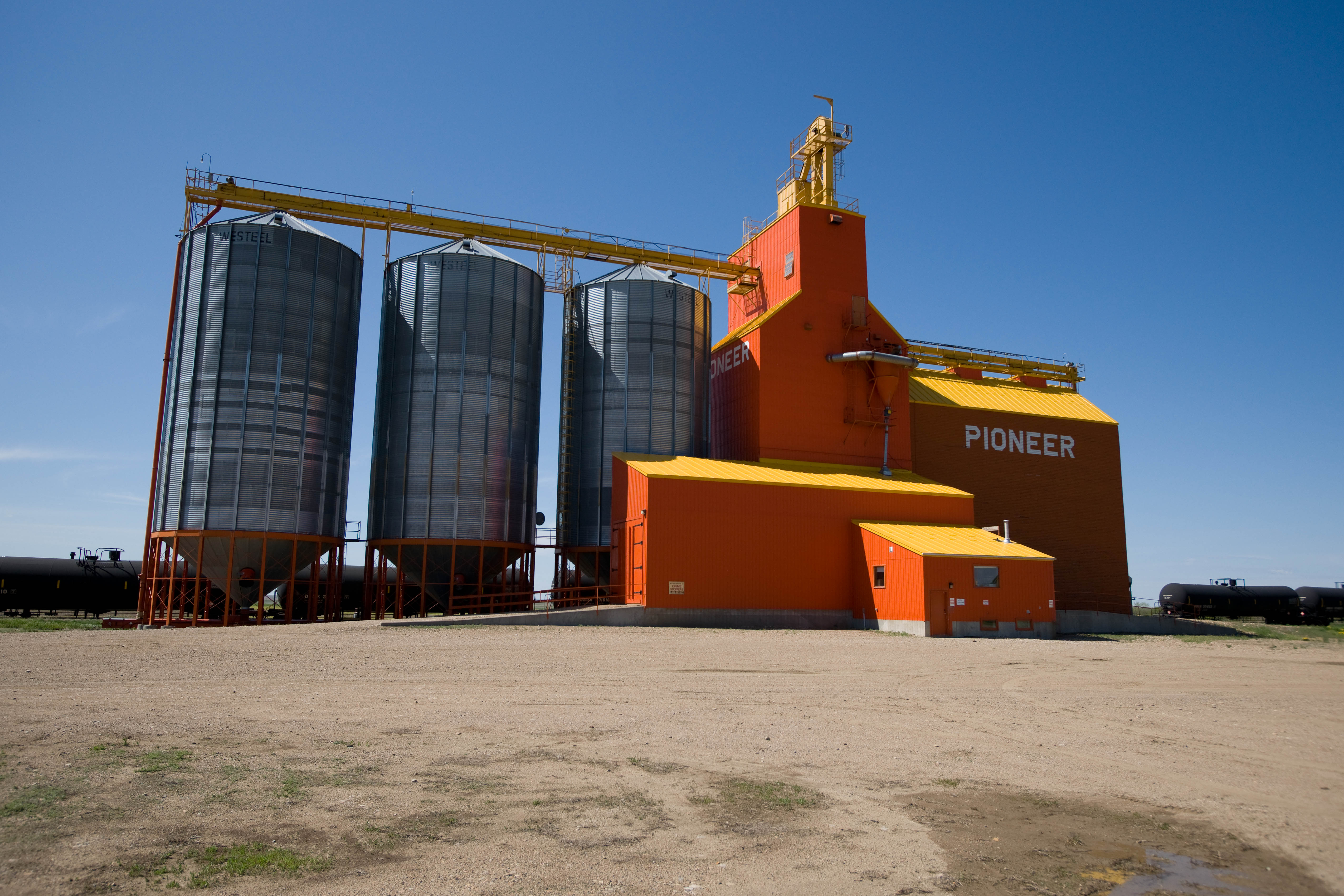 From